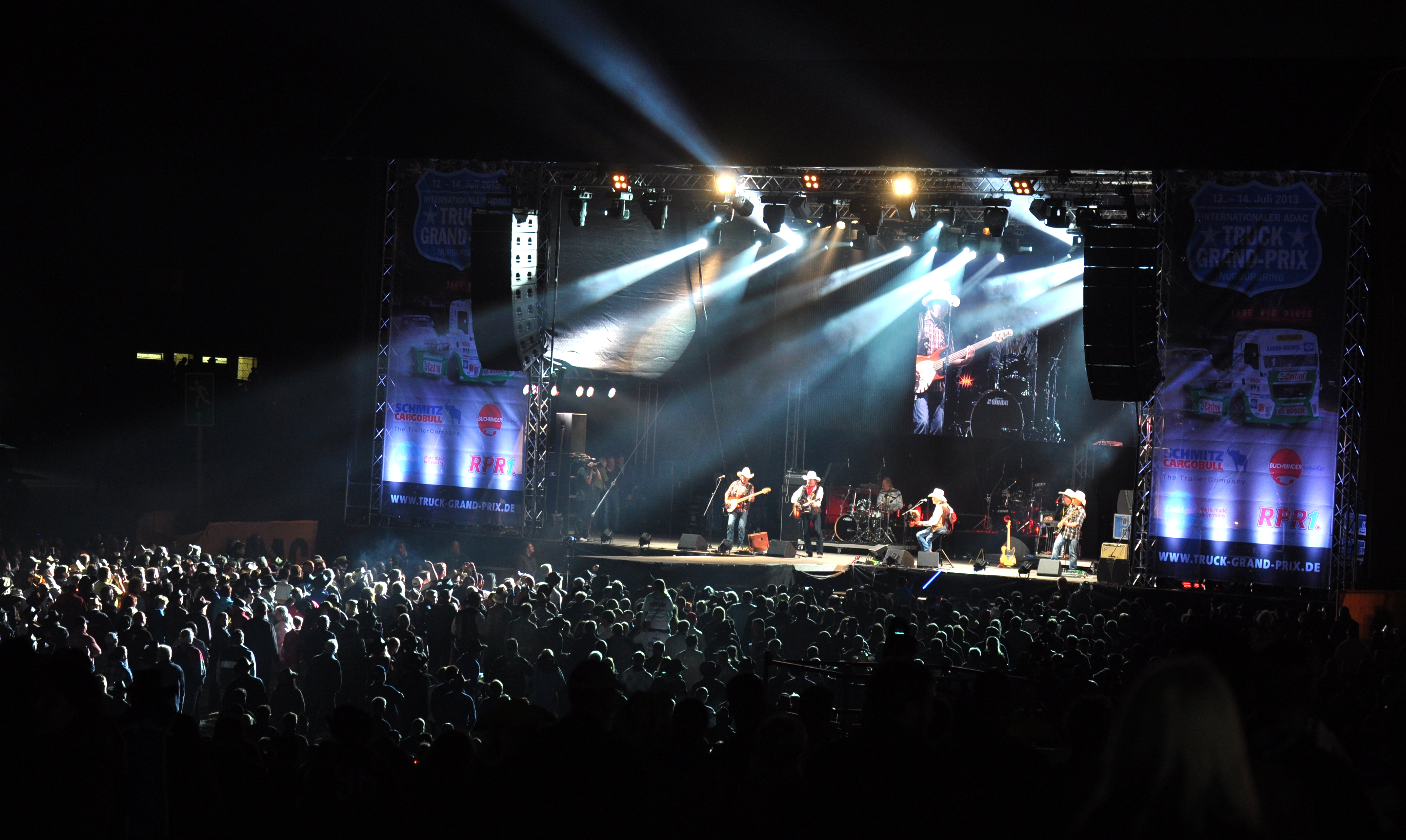 Country band Truck Stop at the International Truck Grand Prix Country Festival 2013, Nürburgring, Germany